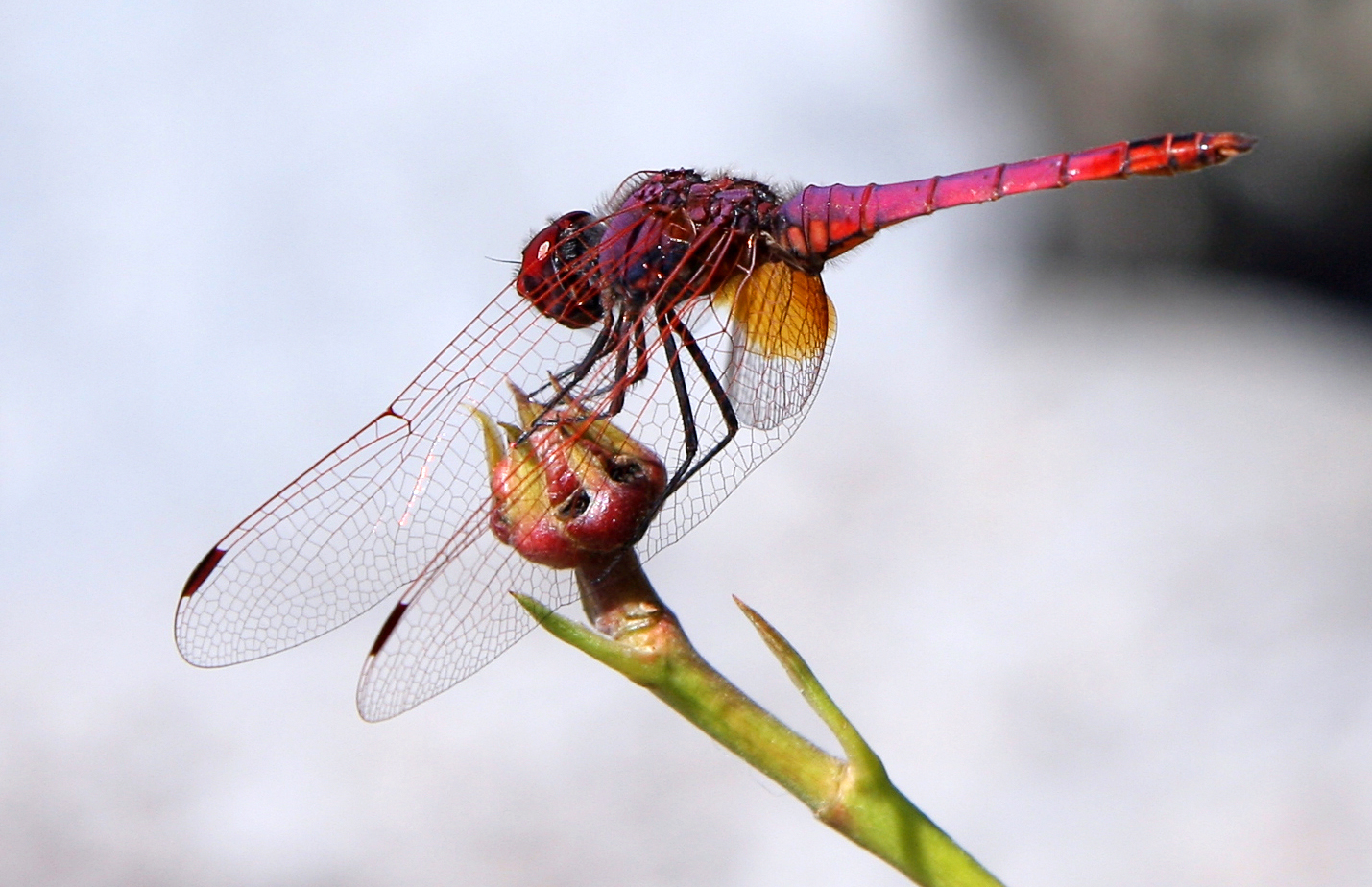 en: Trithemis annulata (male)